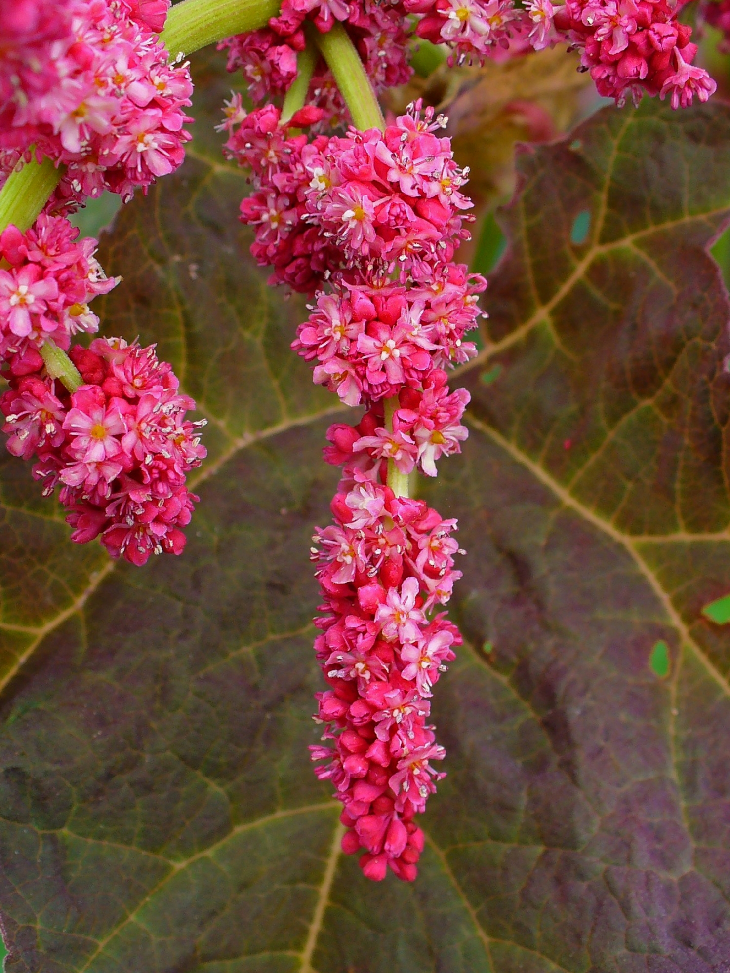 Rheum palmatum, Polygonaceae, Chinese Rhubarb, flowers. Karlsruhe, Germany.